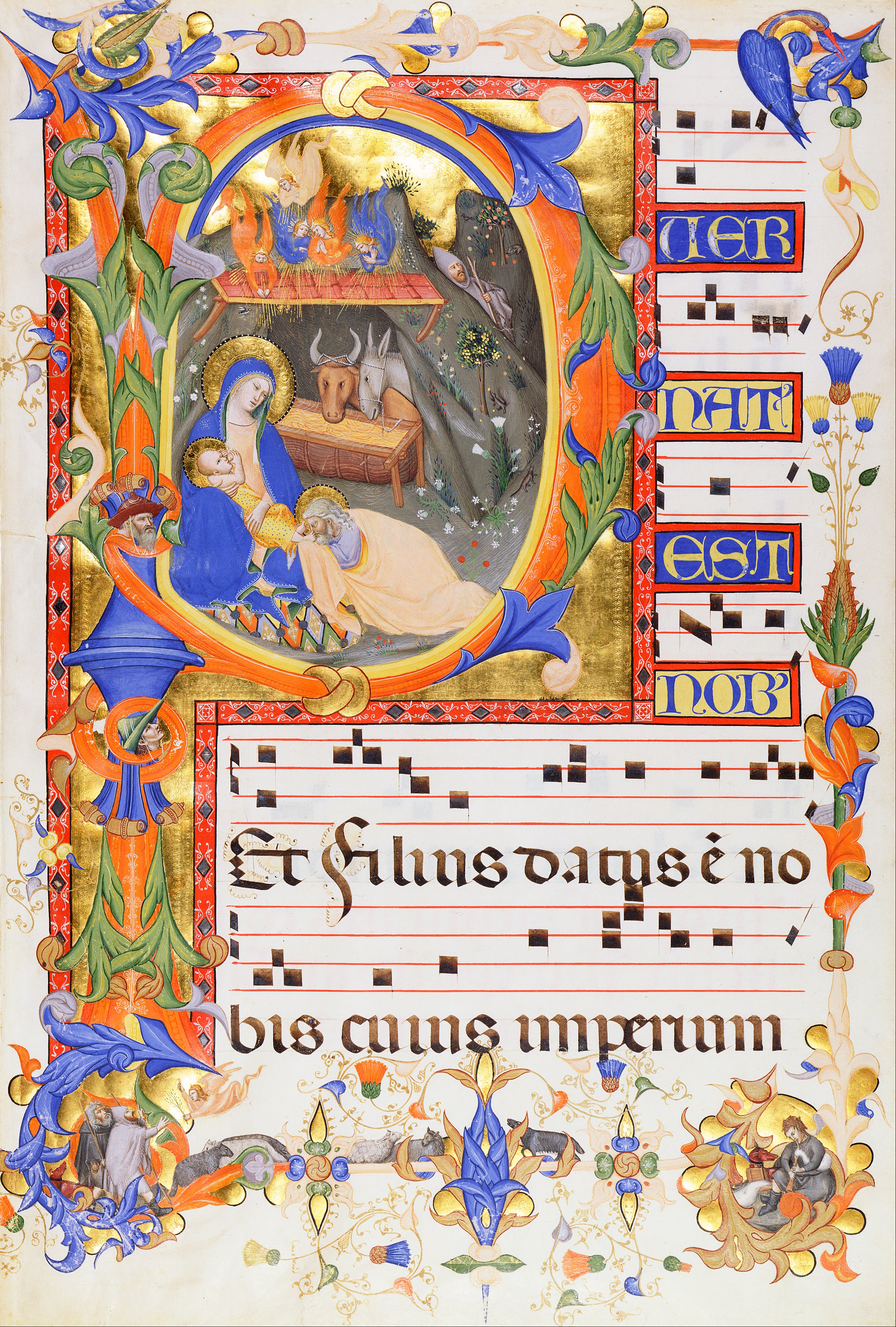 Leaf from a Gradual (I), in Latin Illuminated by Don Silvestro dei Gherarducci for Paolo Venier, abbot of San Michele à Murano Italy, Florence ca. 1392–1399 590 x 400 mm MS M.653.1 The Roman numeral XXXVIII on the recto of the leaf indicates it was originally folio 38 in the Gradual. Here the initial P begins the Introit for the Christmas Mass, which is taken from the Book of Isaiah (9:6): Puer natus est nobis (A child is born to us). The prophet Isaiah may be represented as the upper of two heads on the shaft of the P. The lower head is that of a shepherd. The oval encloses the Nativity, which is staged before a cave with the ox and ass. The Virgin nurses her child, while the prostrate Joseph kisses his foot. The kissing of Christ's foot has its textual counterpart, and perhaps its origin, in such mystical writings as the thirteenth-century Meditations on the Life of Christ, in which the Magi and others are described as kissing his feet and playing with him. At the bottom of the leaf is the Annunciation to the Shepherds with an angel bearing an olive branch (peace to men of good will) and a shepherd playing his bagpipe. Even the sheep are animated.